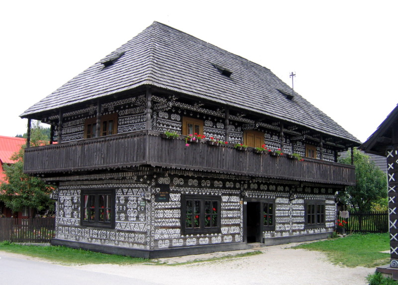 Raden's house, Čičmany (Považské múzeum exposition)